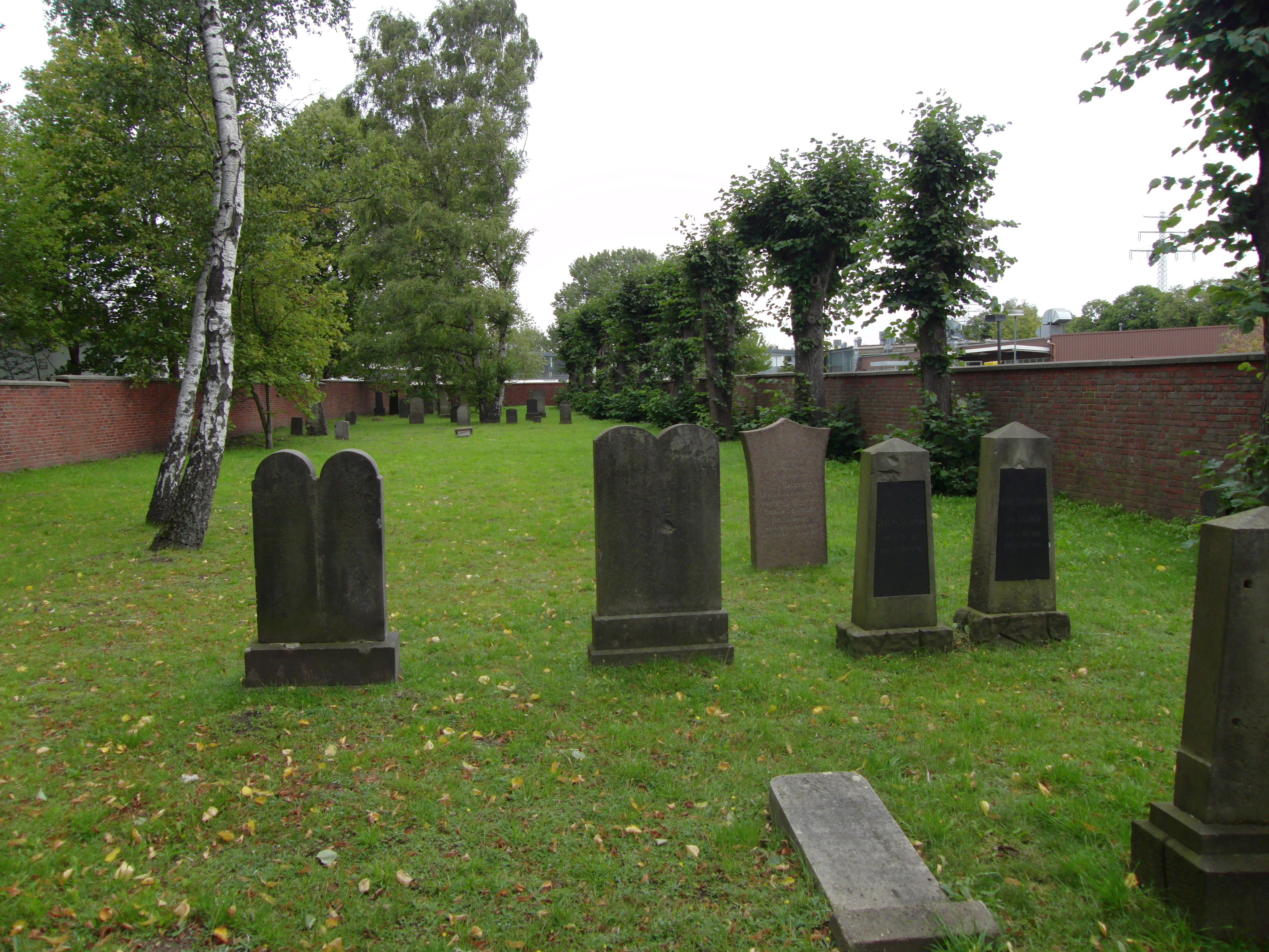 Jewish Cemitery in Hamburg-Wandsbek